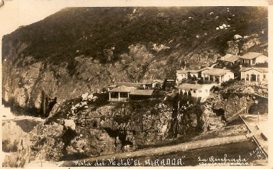 El Mirador 1940